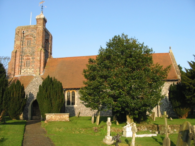 Ringwould church The church of St. Nicholas, is the oldest building in Ringwould, it dates from the 12th century but the brick tower was built in 1628. Later an onion dome turret was added which served as an aid to navigation for ships in the Channel.